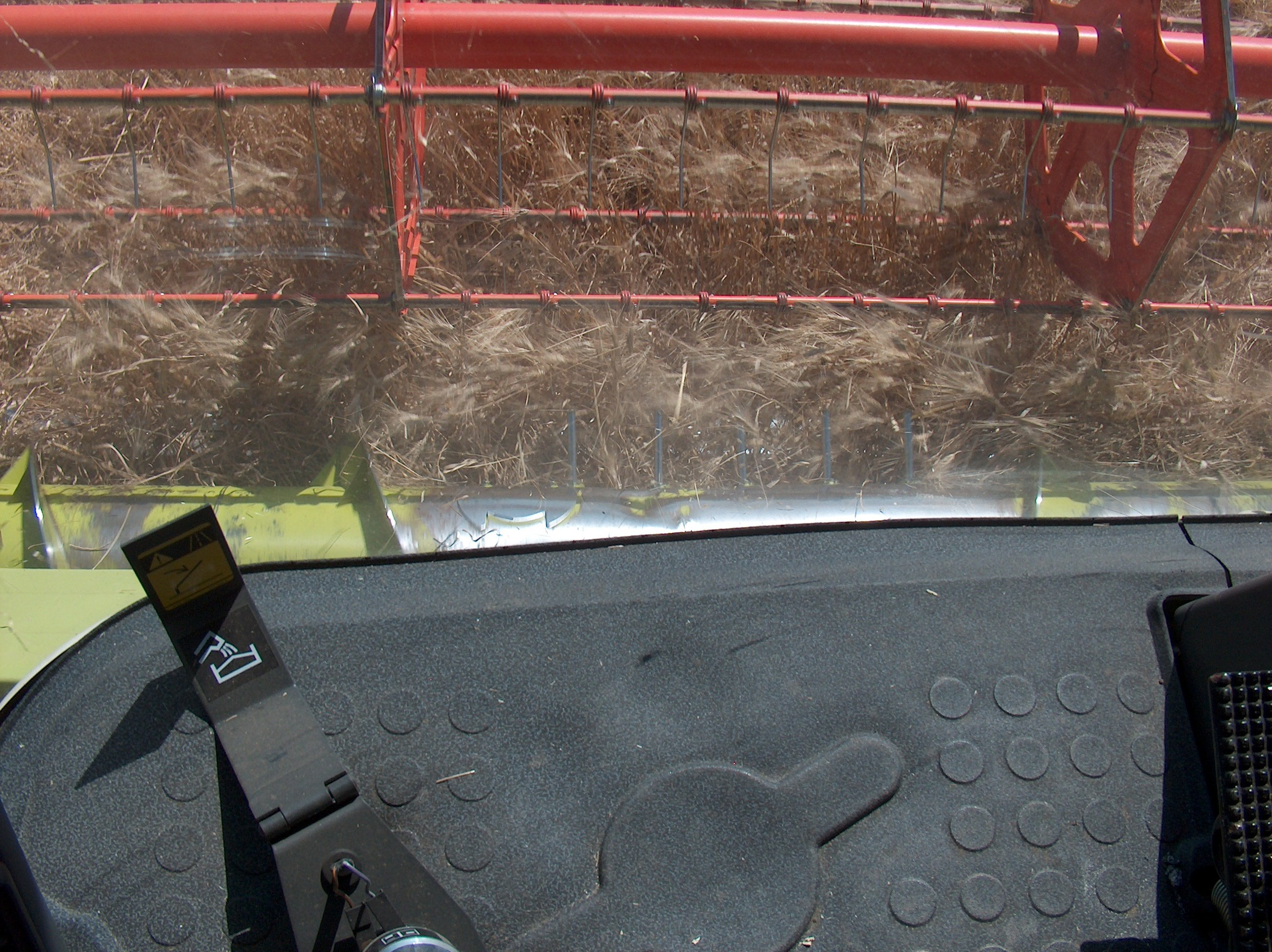 Combine harvester header at work (view from the operator's cab) – Vocational Institute of Agriculture and Environment "Cettolini" of Cagliari (Sardinia, Italy) - Associated School of Villacidro (Sardinia, Italy)